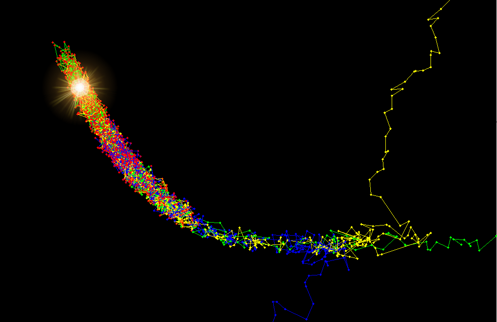 Author: Vasileios Zografos License